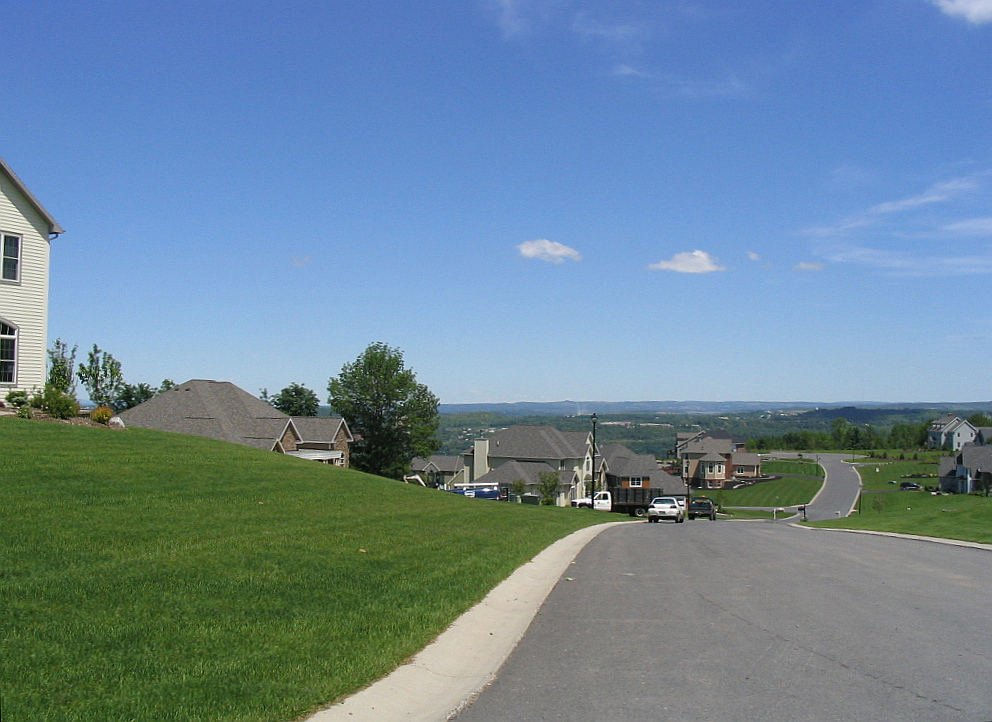 photo of a Town of Onondaga housing development in the hills, taken by me on June 4, 2004